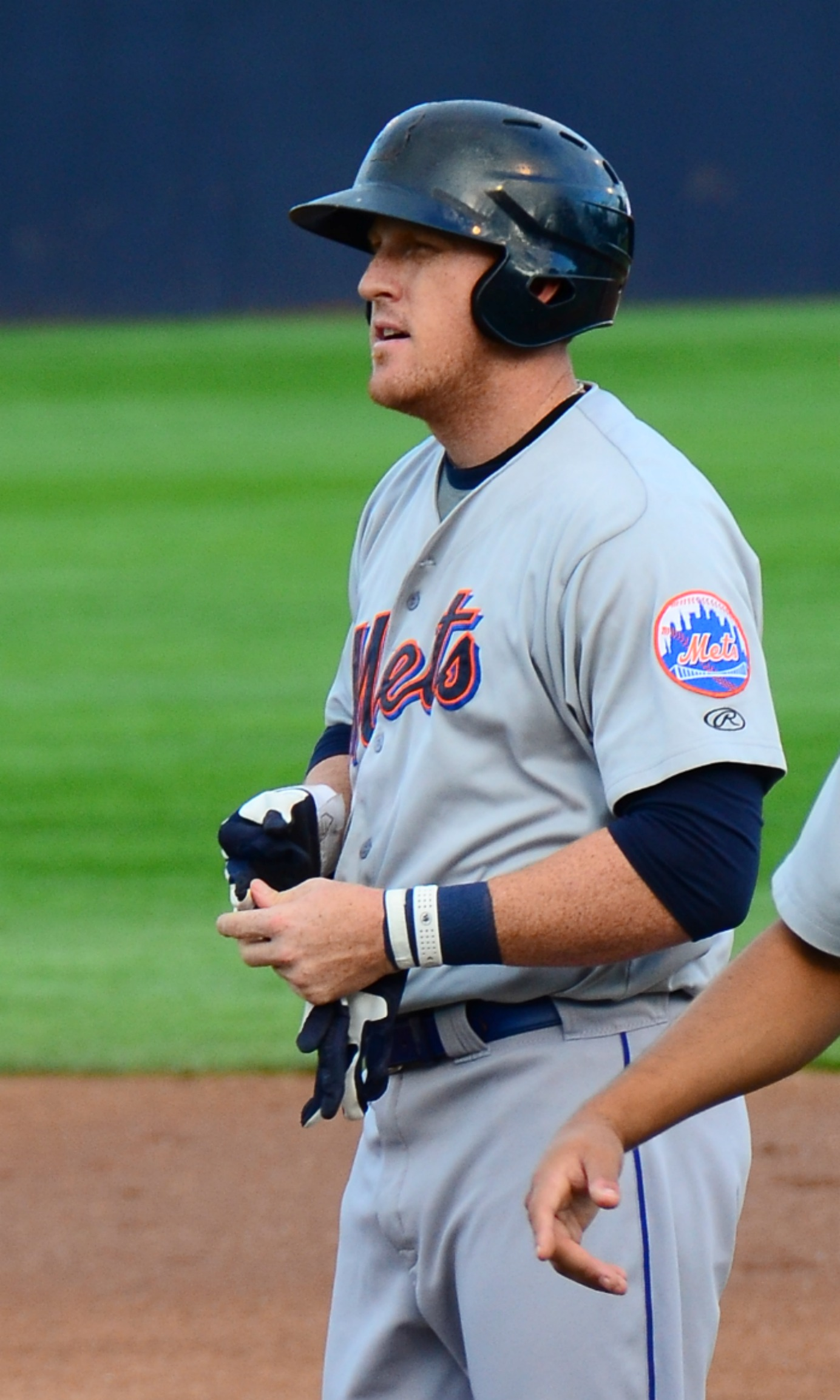 Allan Dykstra